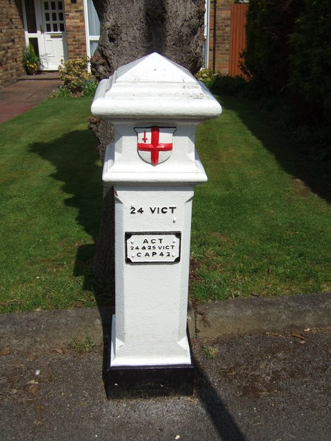 Coal Tax Pillar. This, I believe (from looking at other Geographs) is a Coal Tax Pillar, marking the boundary of the London Coal Tax area where a levy had to be paid if coal passed this point. Cf. 22931 24 VICT probably indicates that it was erected in the 24th year of Queen Victoria's reign, i.e. 1861